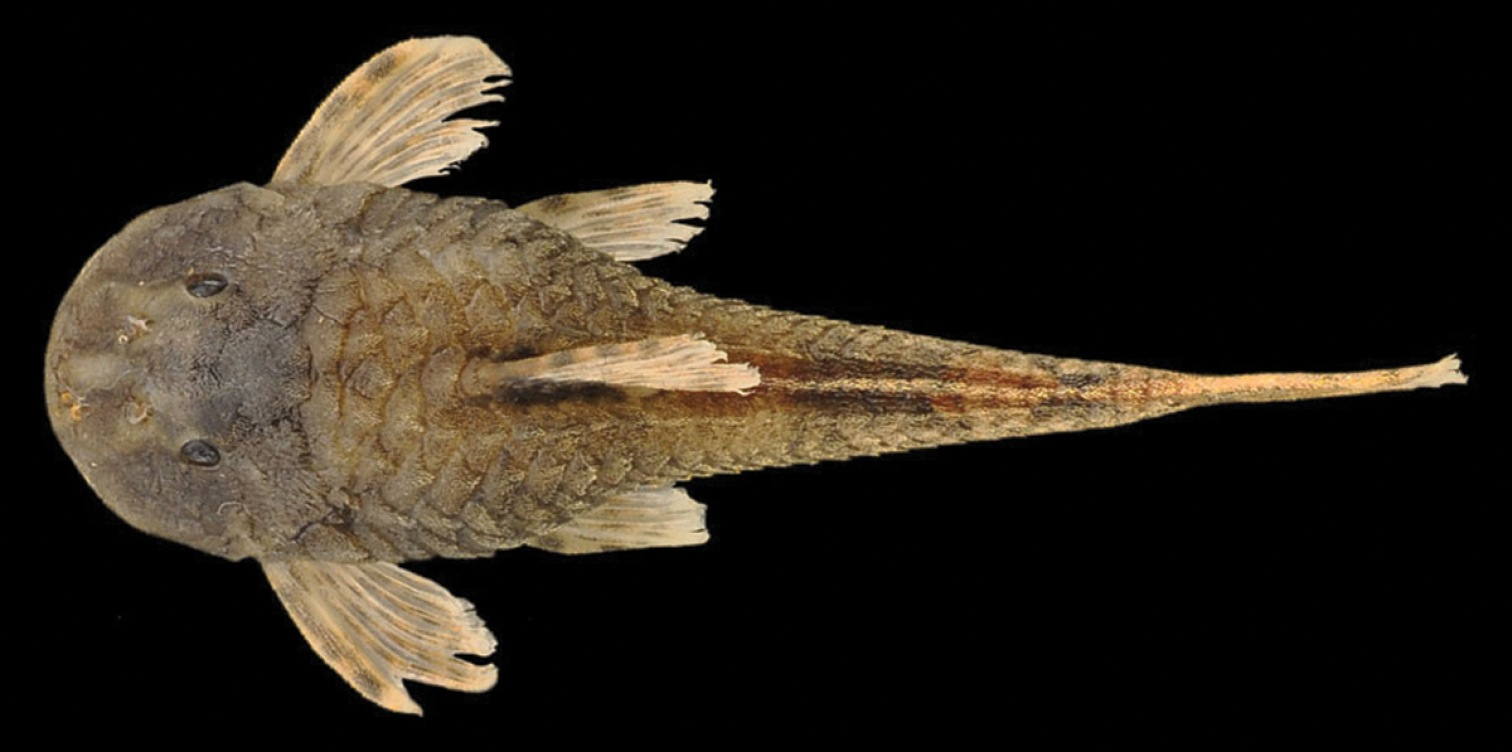 Pareiorhina hyptiorhachis, MZUSP 111956, 33.6 mm SL, holotype from Ribeirão Fernandes, Rio Paraíba do Sul basin, municipality of Santa Barbara do Tugúrio. Dorsal view.